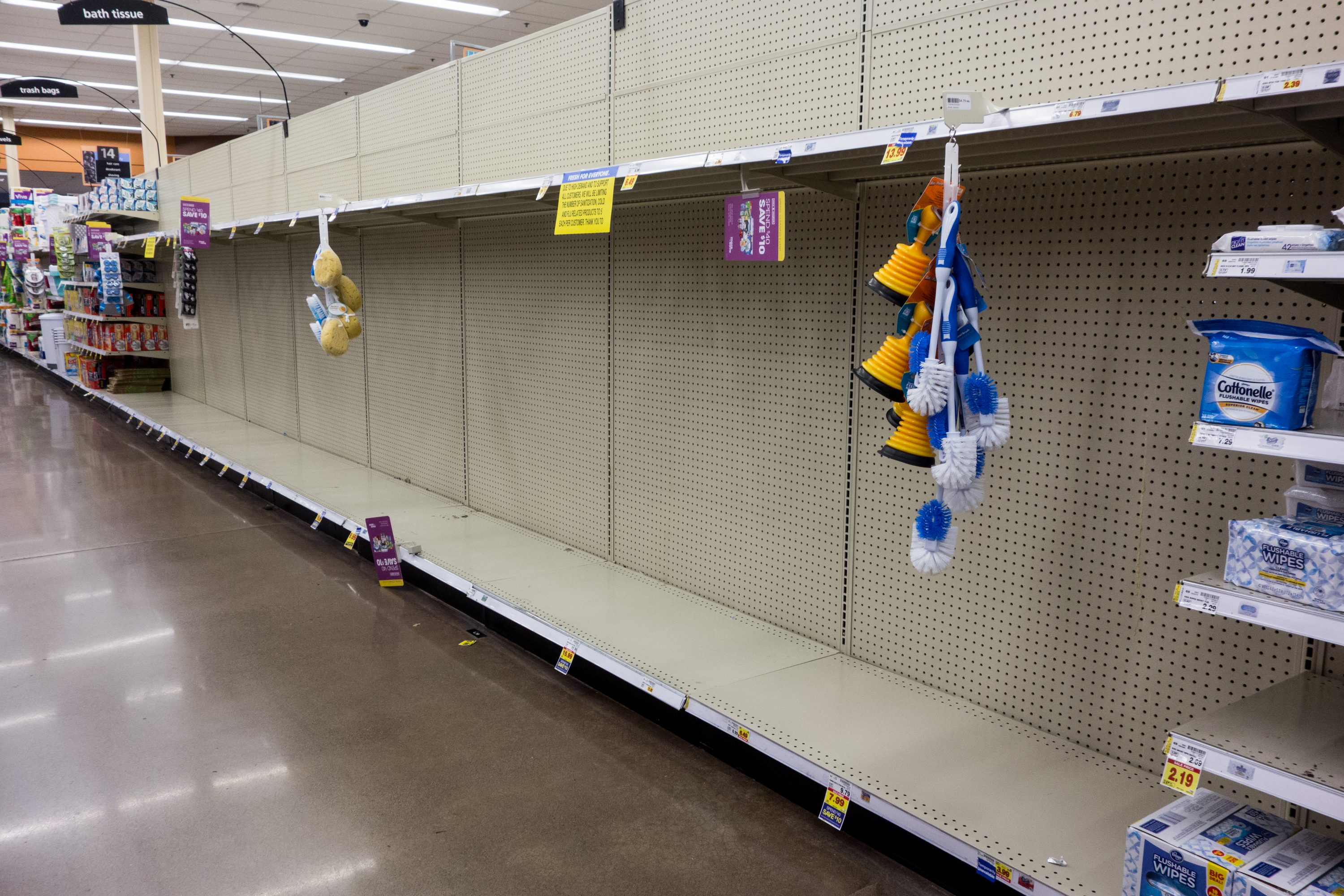 2019 Coronavirus pandemic, toilet paper shortage at Krogers.